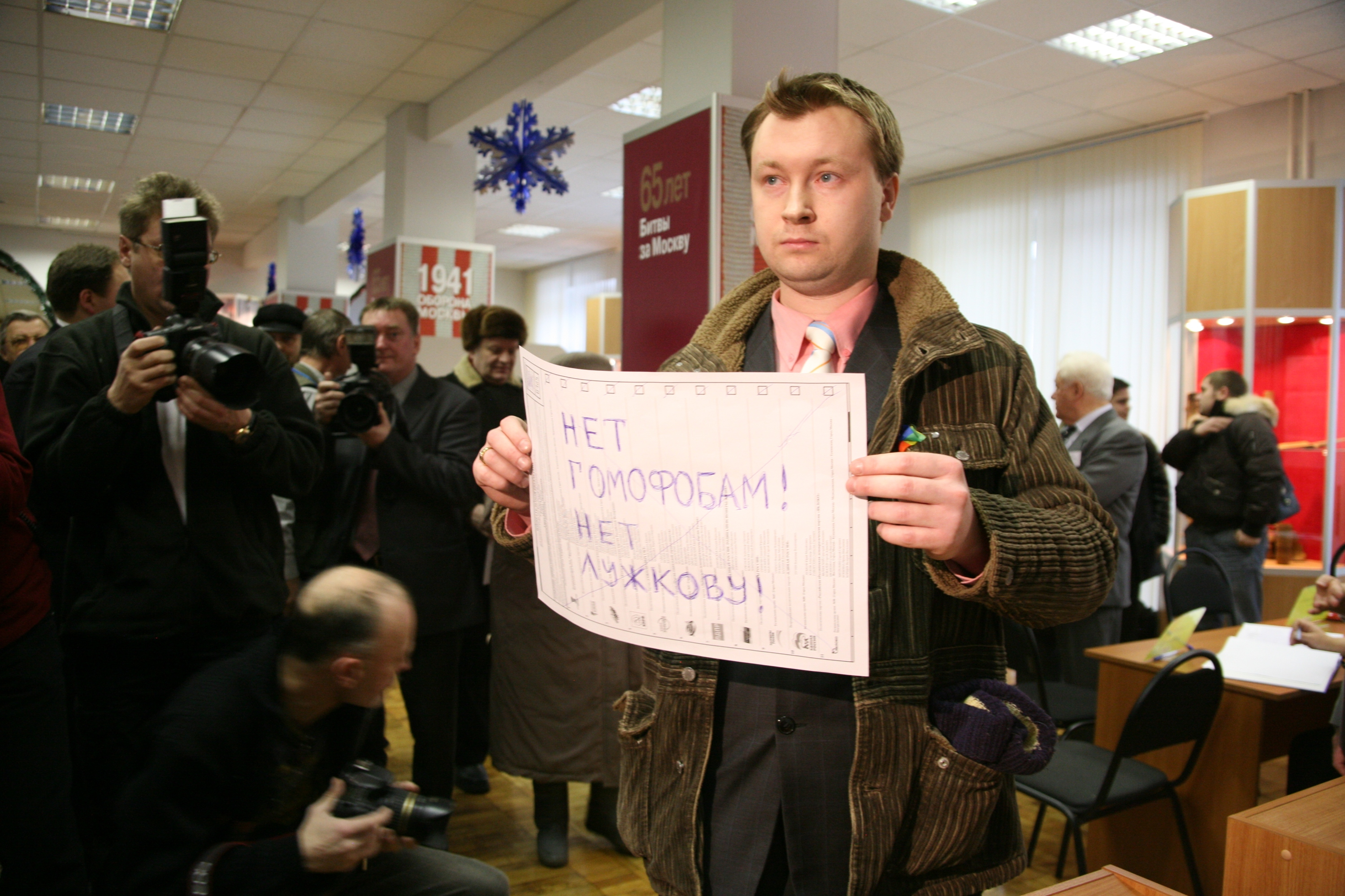 Moscow Pride organizer Nikolay Alexeyev holding his spoilt ballot paper which reads "No to homophobes, no to Luzhkov"